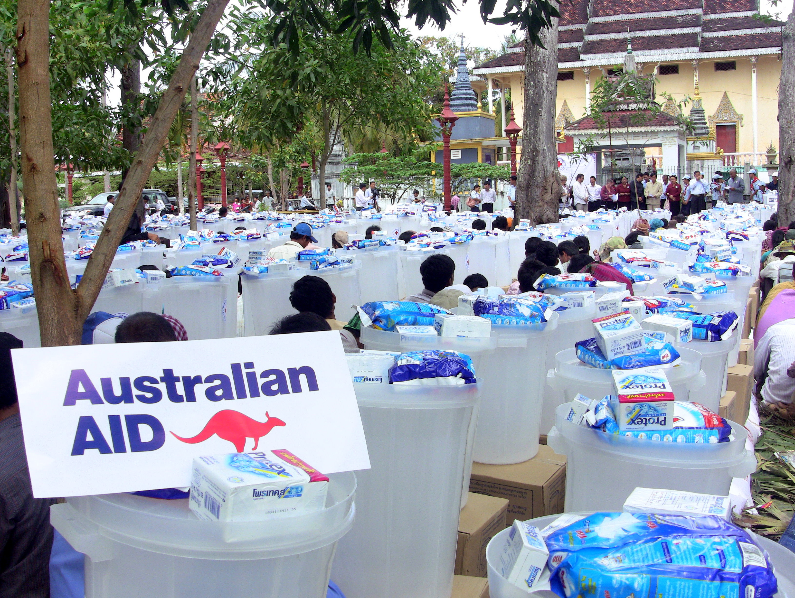 AusAID-Red Cross donations for Cambodia, 2011.